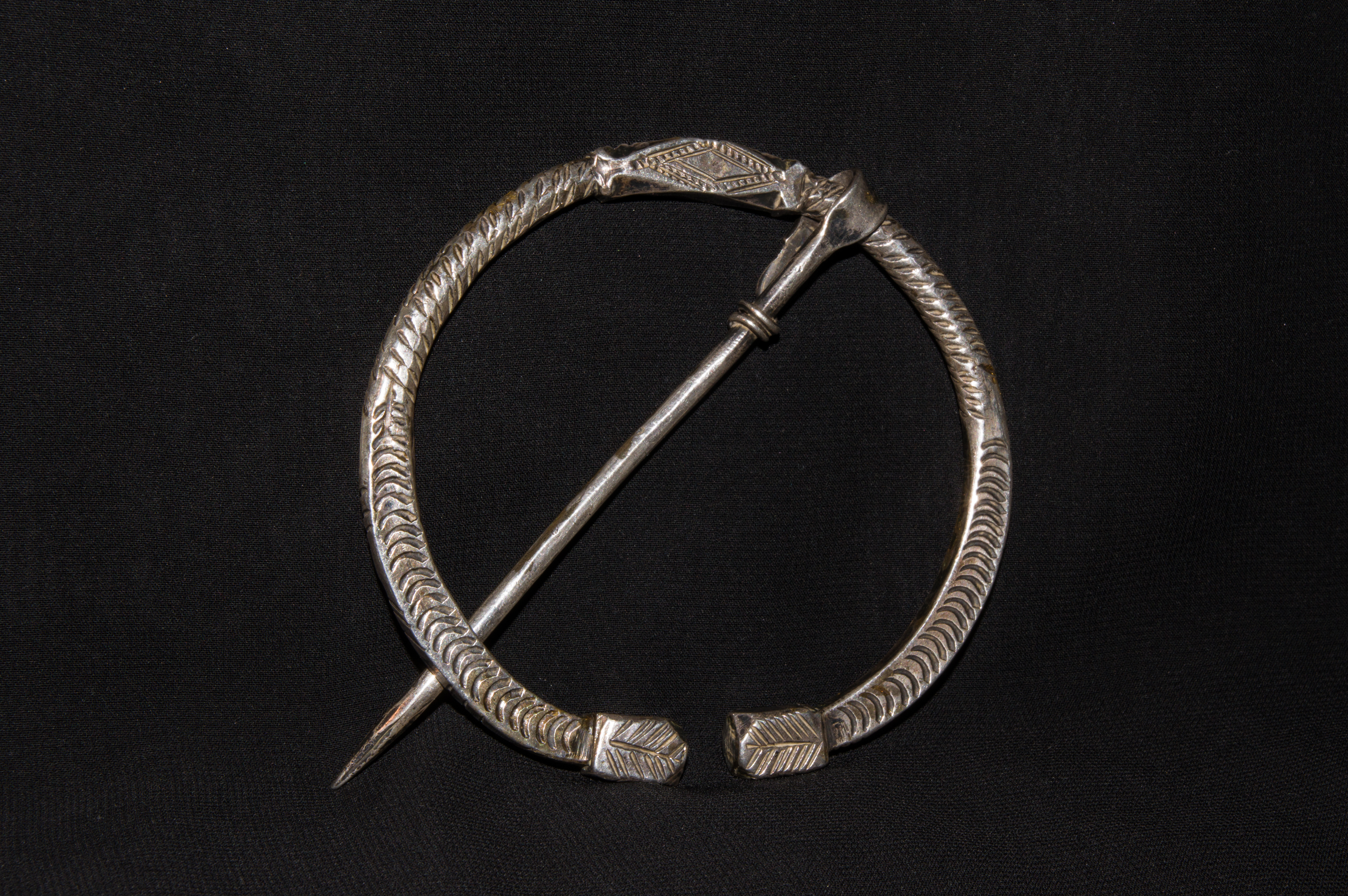 Khlel en argent (Tunisie) This is an image of Cultural Fashion or Adornment from Tunisia